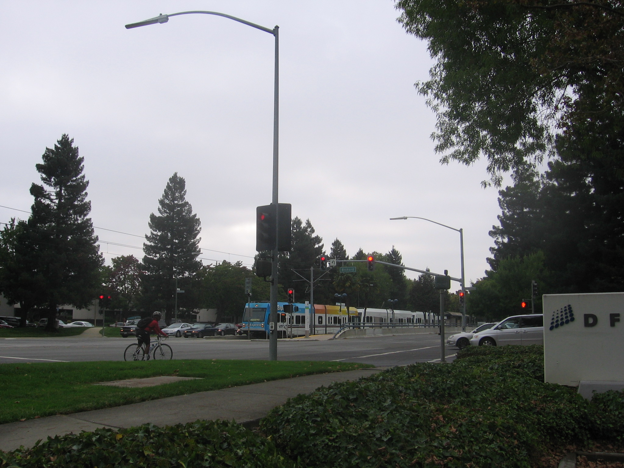 The Orchard (VTA) light rail and bus station on North 1st Street and Orchard Parkway in San José, California, USA.